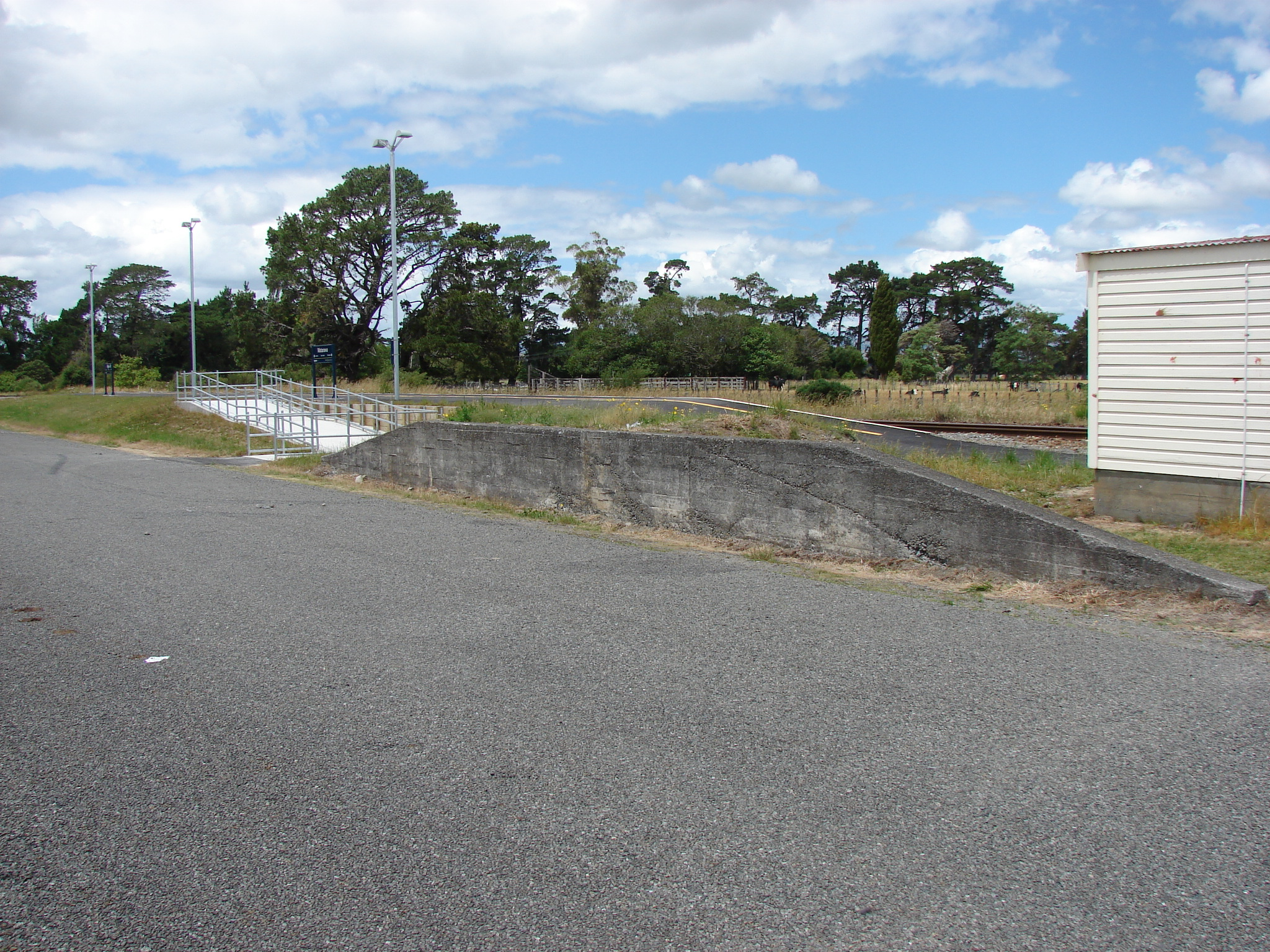 Loading bank at Matarawa railway station. Photographed by Matthew25187 on 2007-12-22.